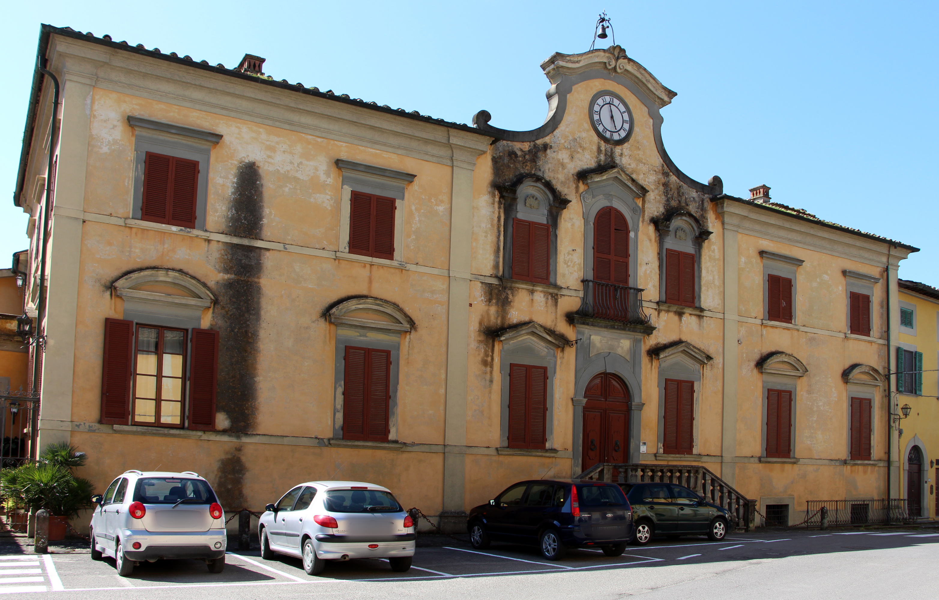 Villa Masi Berzighelli (Capannoli)